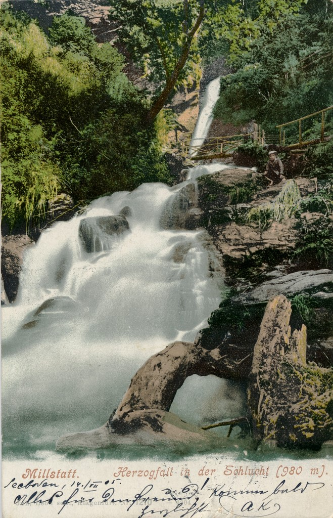 Waterfall near Obermillstatt / Lake Millstatt (Millstätter See), district Spittal an der Drau in Carinthia / Austria / Middle Europe / EU.